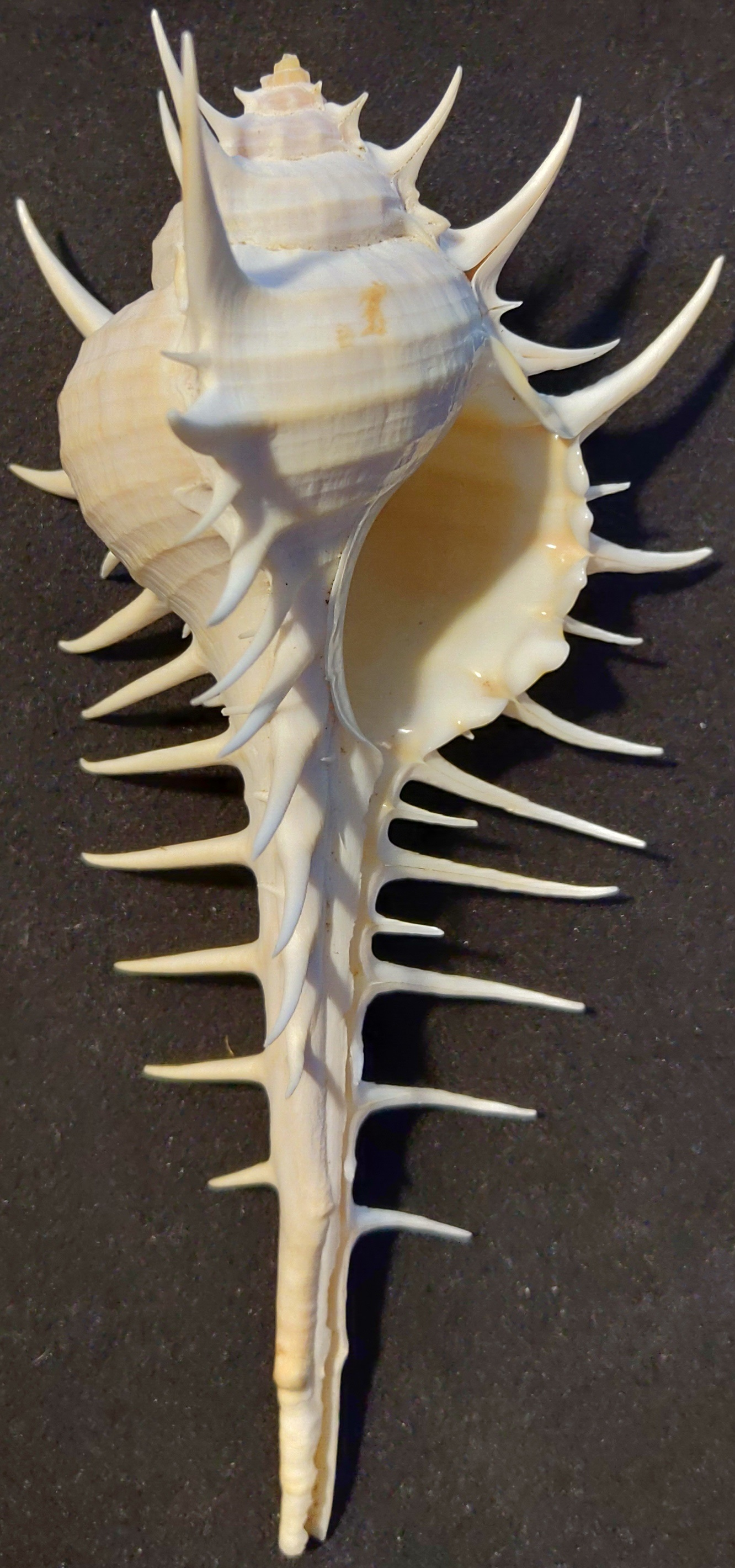 Murex Scolopax Front.